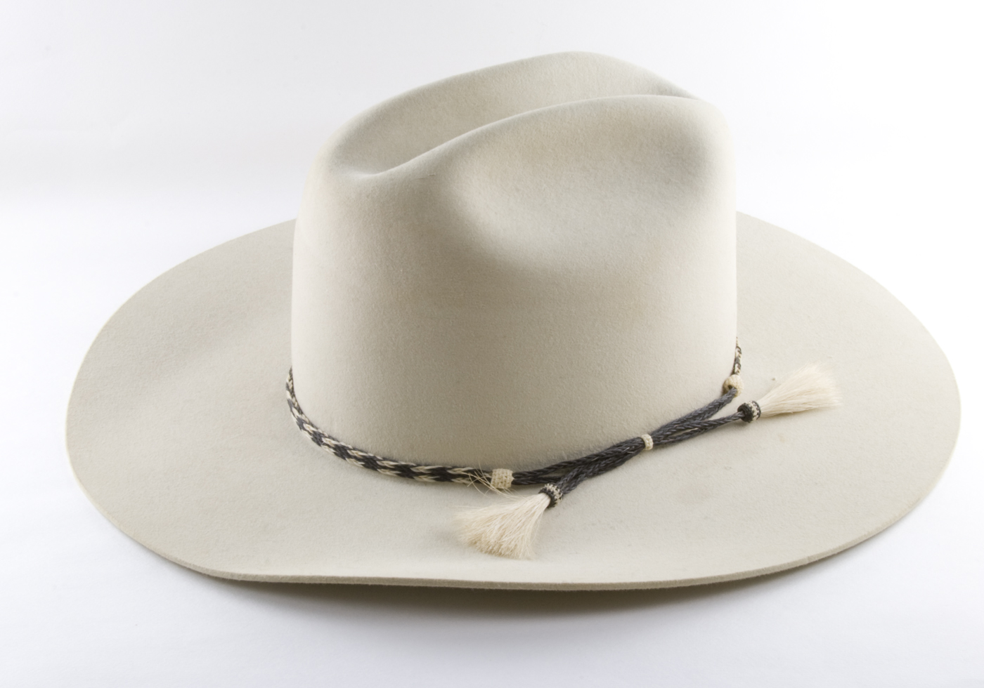 Felt beige cowboy hat on a white background